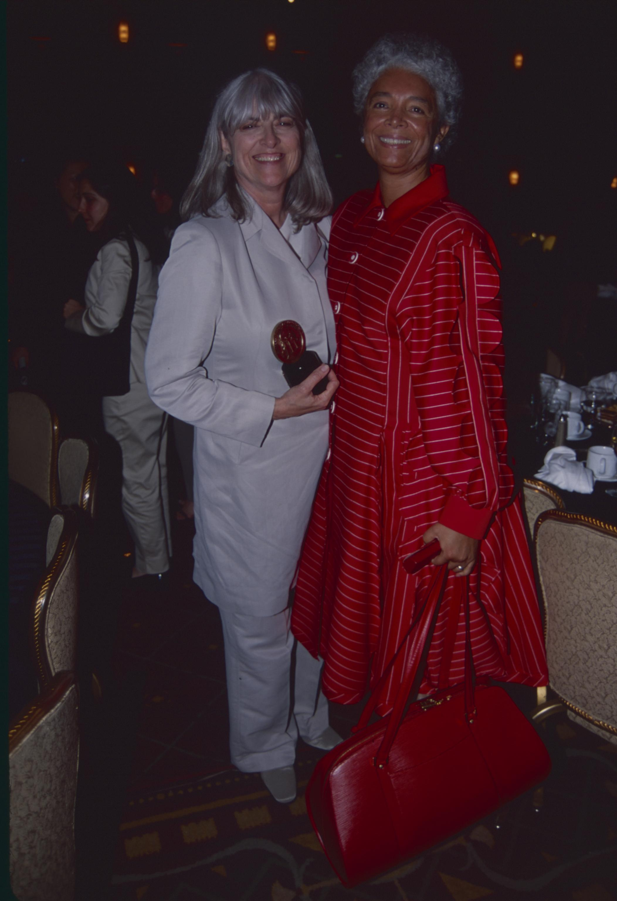 Photos by Patrick McMullan Judith James and Camille Cosby with a Peabody Award for Having Our Say, The 59th Annual Peabody Awards The Waldorf=Astoria May 22, 2000